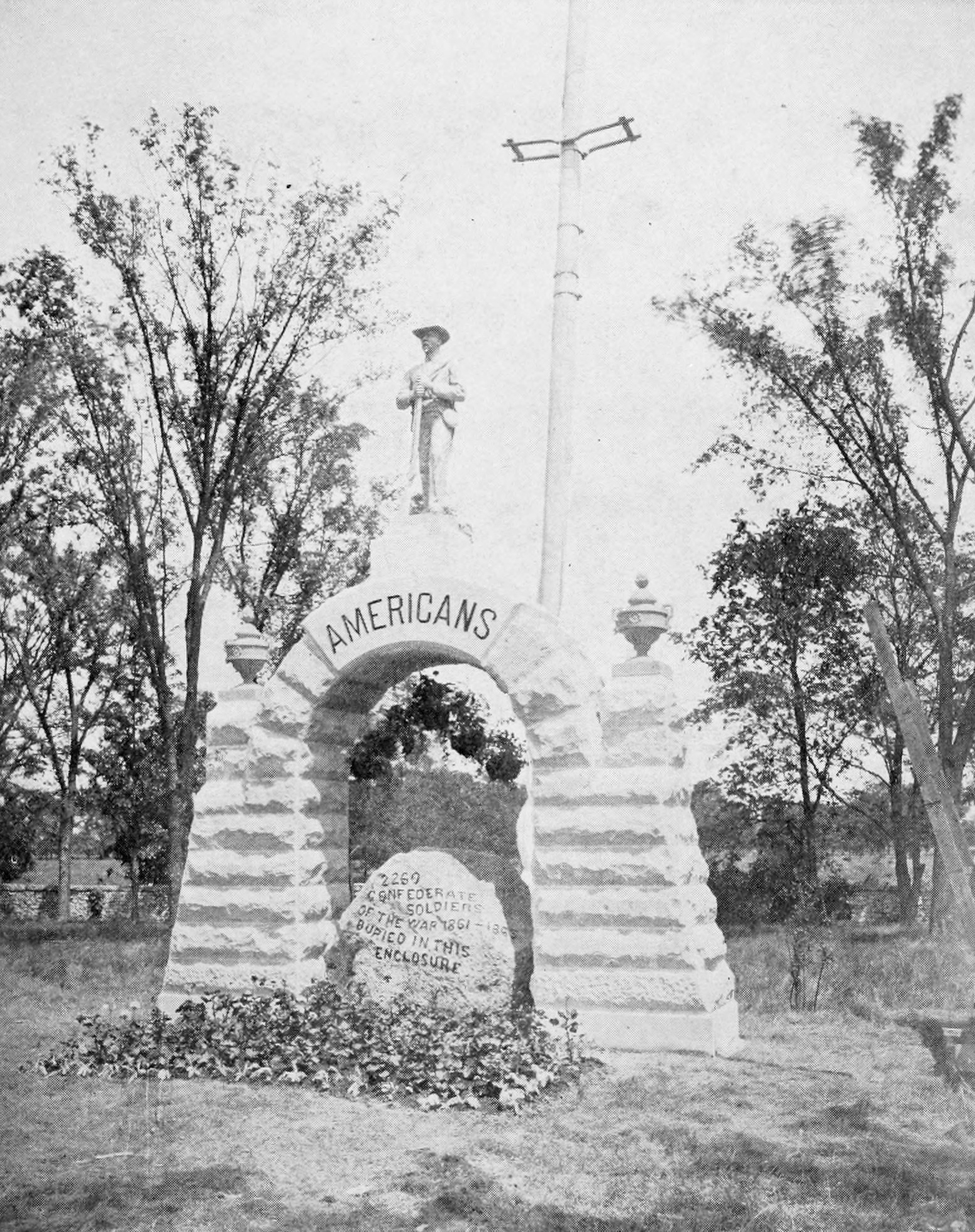 Memorial to confederate dead at Camp Chase in Columbus, Ohio